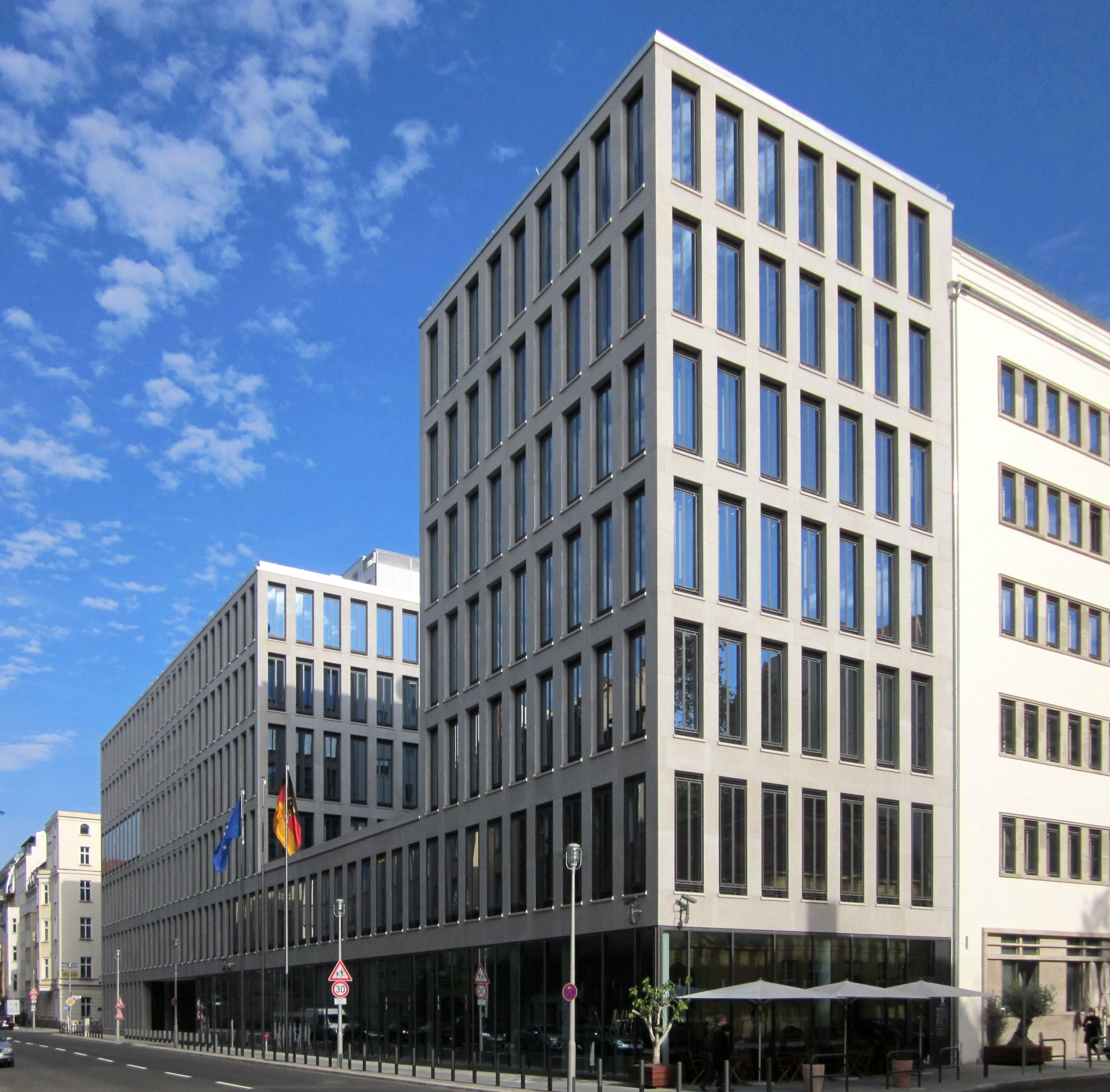 New building of the main seat of the German Federal Ministry of Family Affairs, Senior Citizens, Women and Youth at Glinkastraße No. 24 in Berlin-Mitte. The building was constructed between 2007 and 2009. It is part of a larger complex between Jägerstraße and Taubenstraße which also consists of some older commercial and residential buildings.